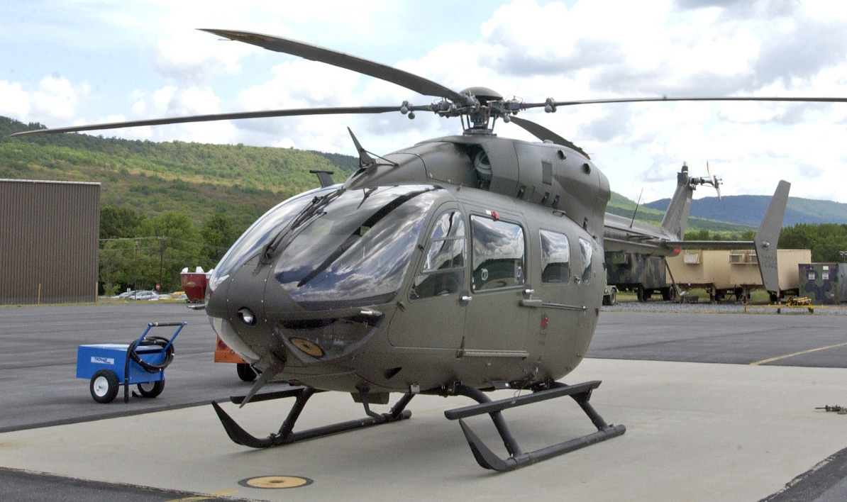 The new UH-72A Lakota light utility helicopter sits on the tarmac at the National Guard’s Eastern Aviation Training Site at Fort Indiantown Gap, Pa. The facility will provide all aviator and aircrew training on the new aircraft.